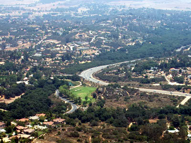 State Route 67 south of Ramona. Public domain image.